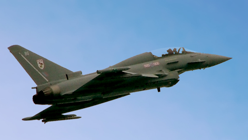 Eurofighter Typhoon T1 ZJ808 of No. 29 Squadron RAF